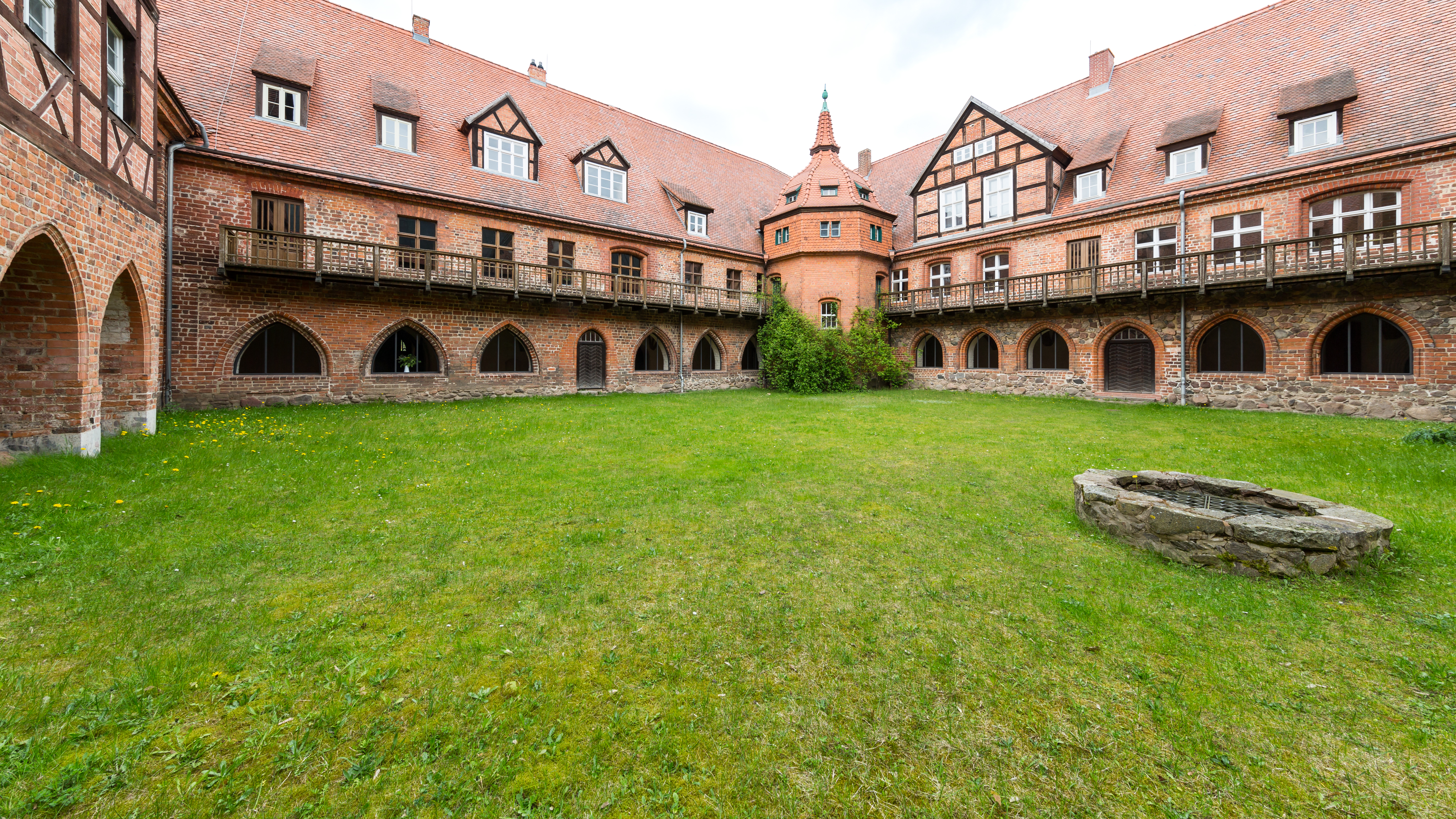 Courtyard of the abbey, Monastery Endowment of the Holy Grave, Heiligengrabe, Brandenburg, Germany